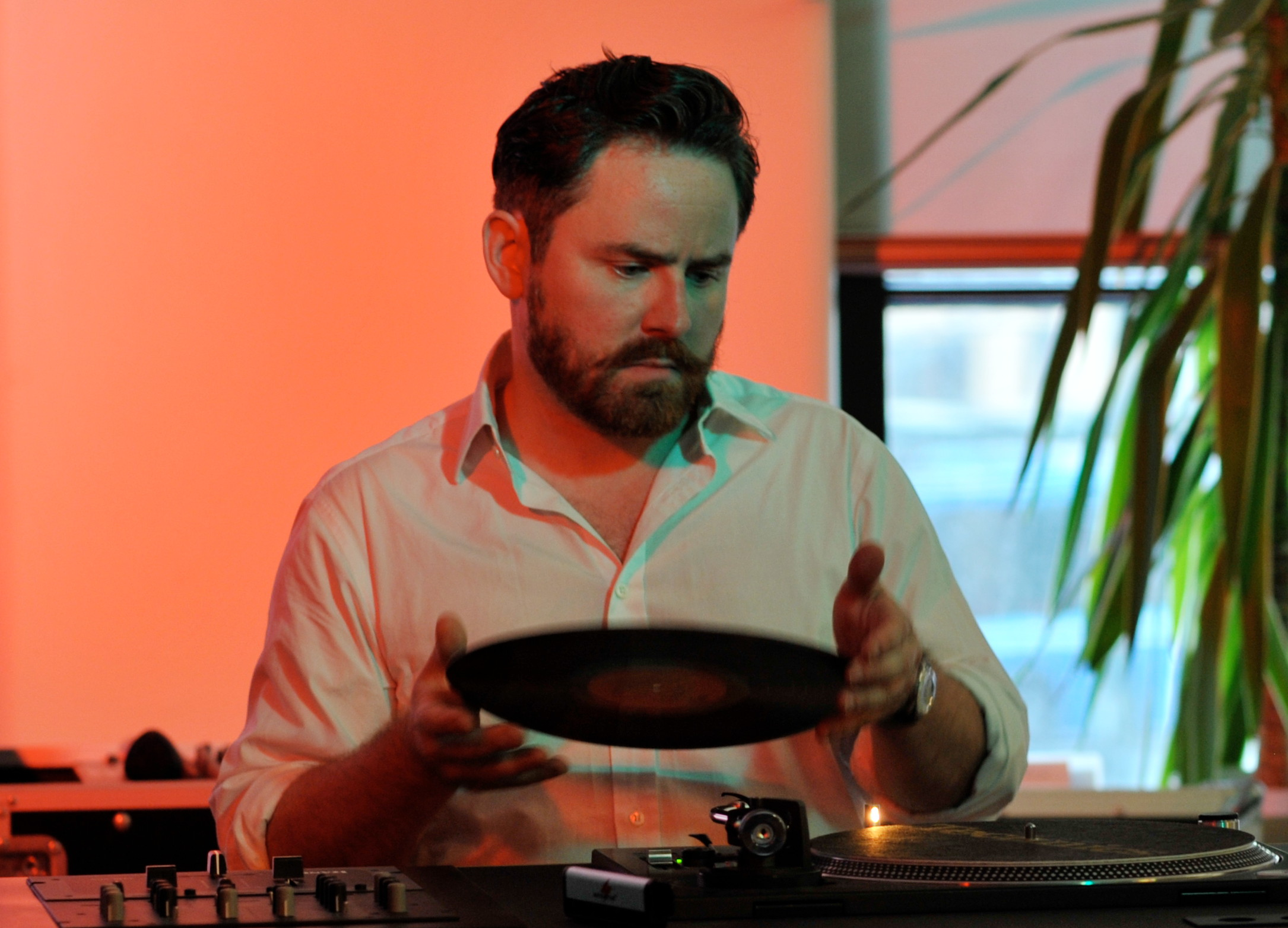 Otto Talvio, Finnish journalist, Library 10, Helsinki, August 2011.